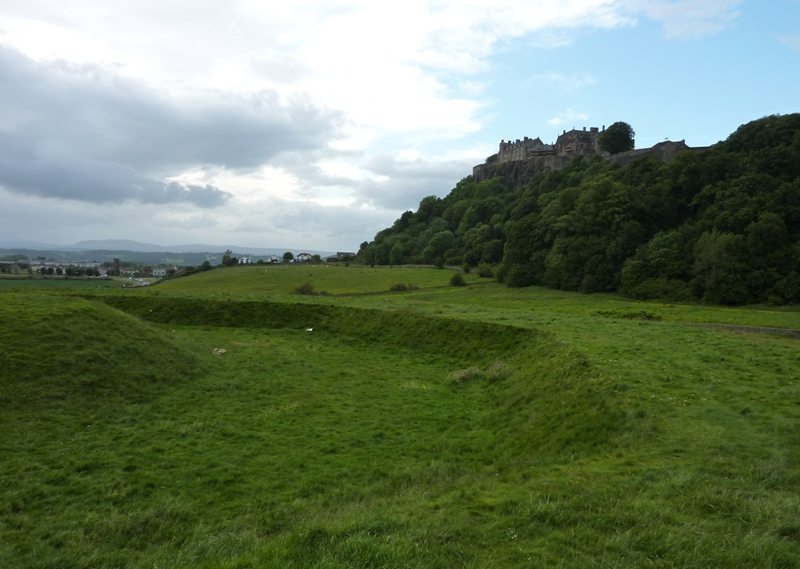 King's Knot, Stirling, Scotland - view on Stirling Caste